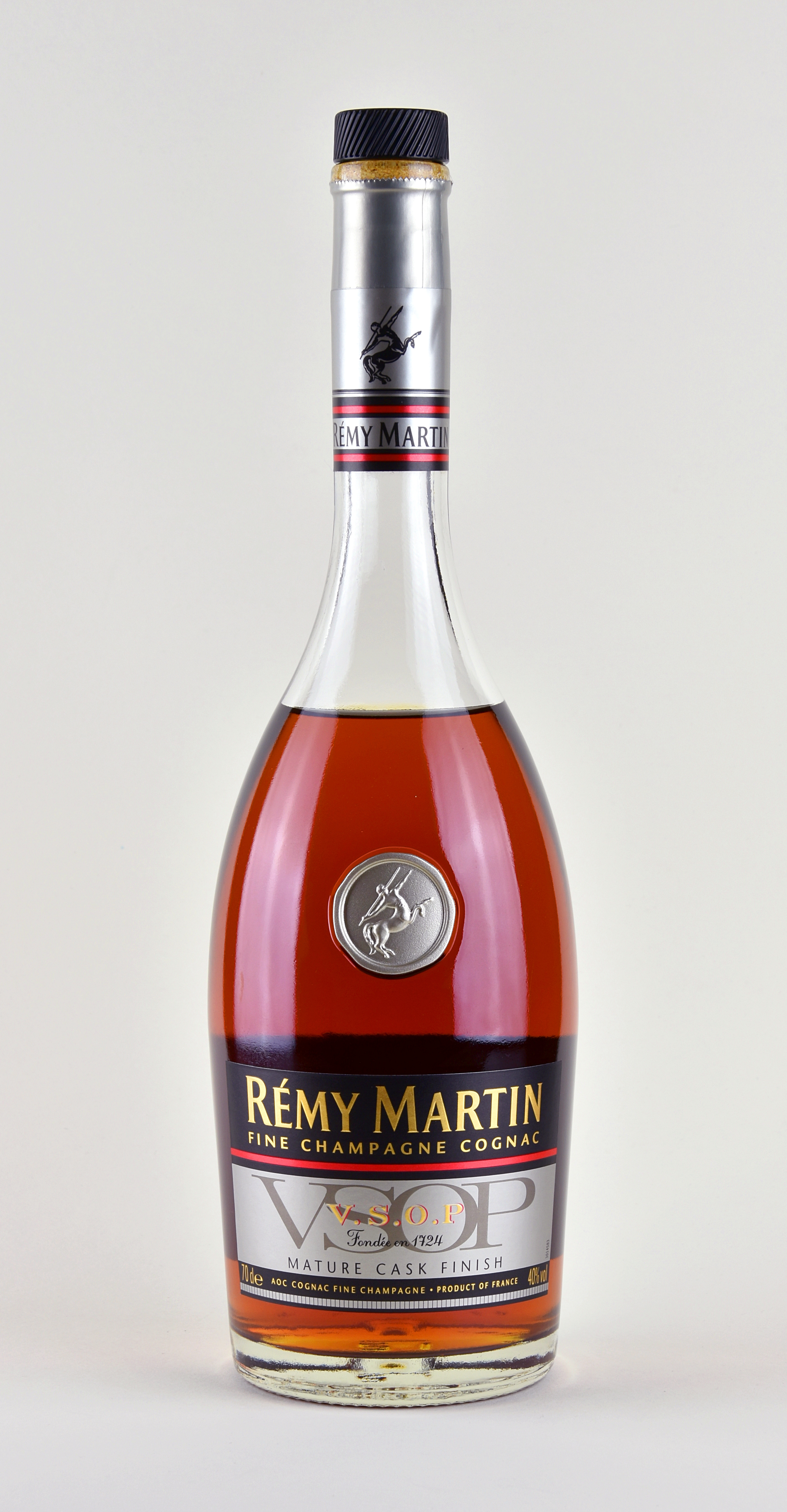 A bottle of Rémy Martin VSOP cognac (already opened and partially consumed). The clear bottle design replaced the matte green bottle in (I believe) 2012.